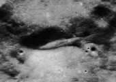 One_Section_Of_AS15-9625(编号：AS15-P-9625的月表照片-局部截图)